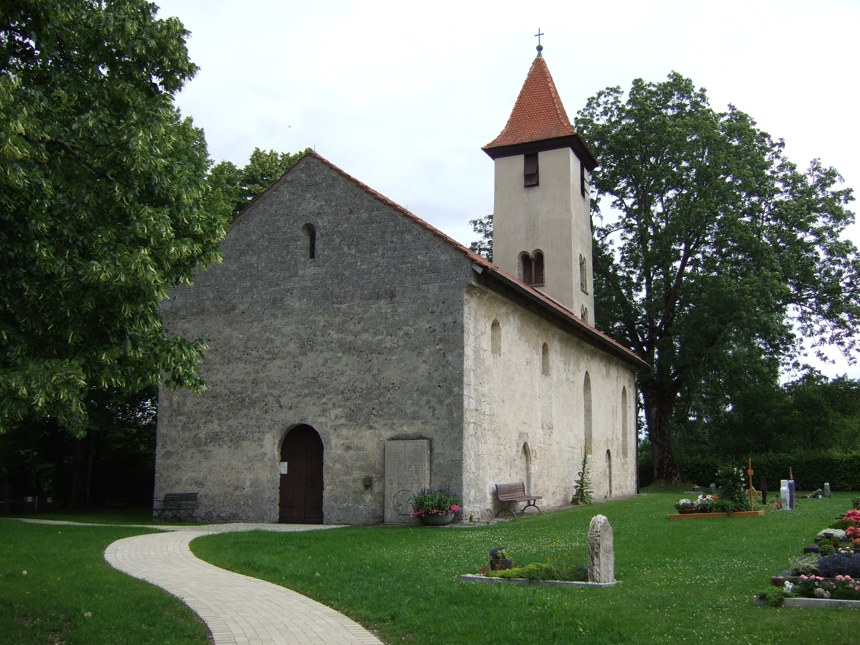 The St.-Michaels Church in Albstadt-Burgfelden